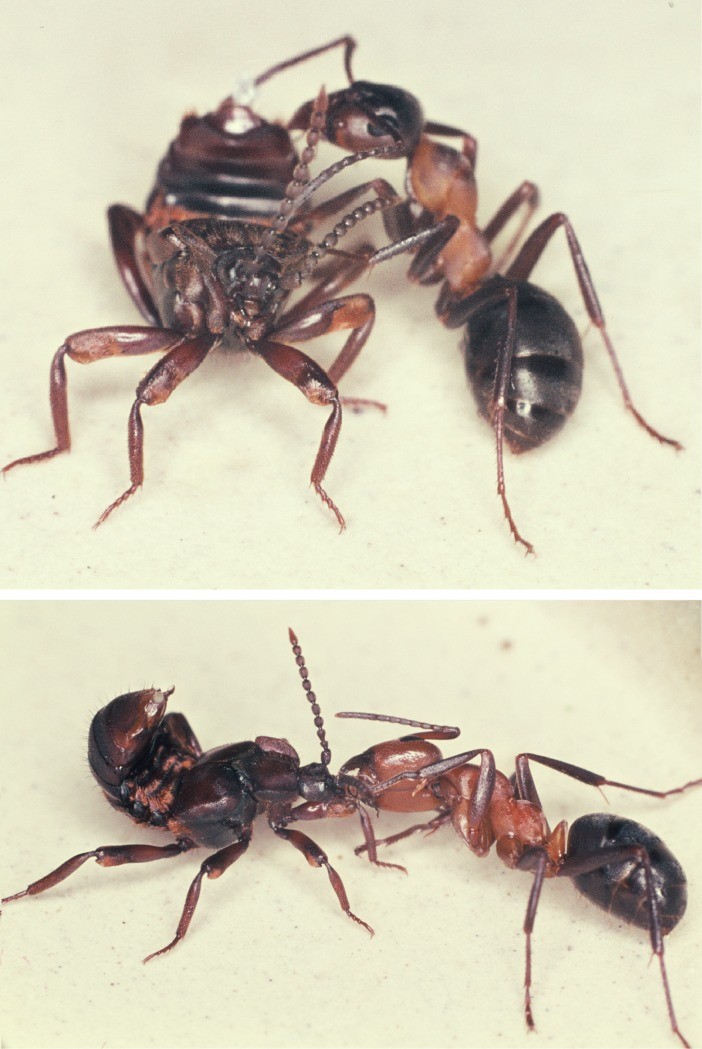 "(above) Often the beetle exudes an opaque, white droplet from its abdominal top, which is taken up by the ant. Presumably it originates from the hindgut/rectum. (below) Occasionally a whitish, clear secretion appears at the lateral sides of the abdomen where the post-pleural gland opens. This secretion is also licked by the ants."